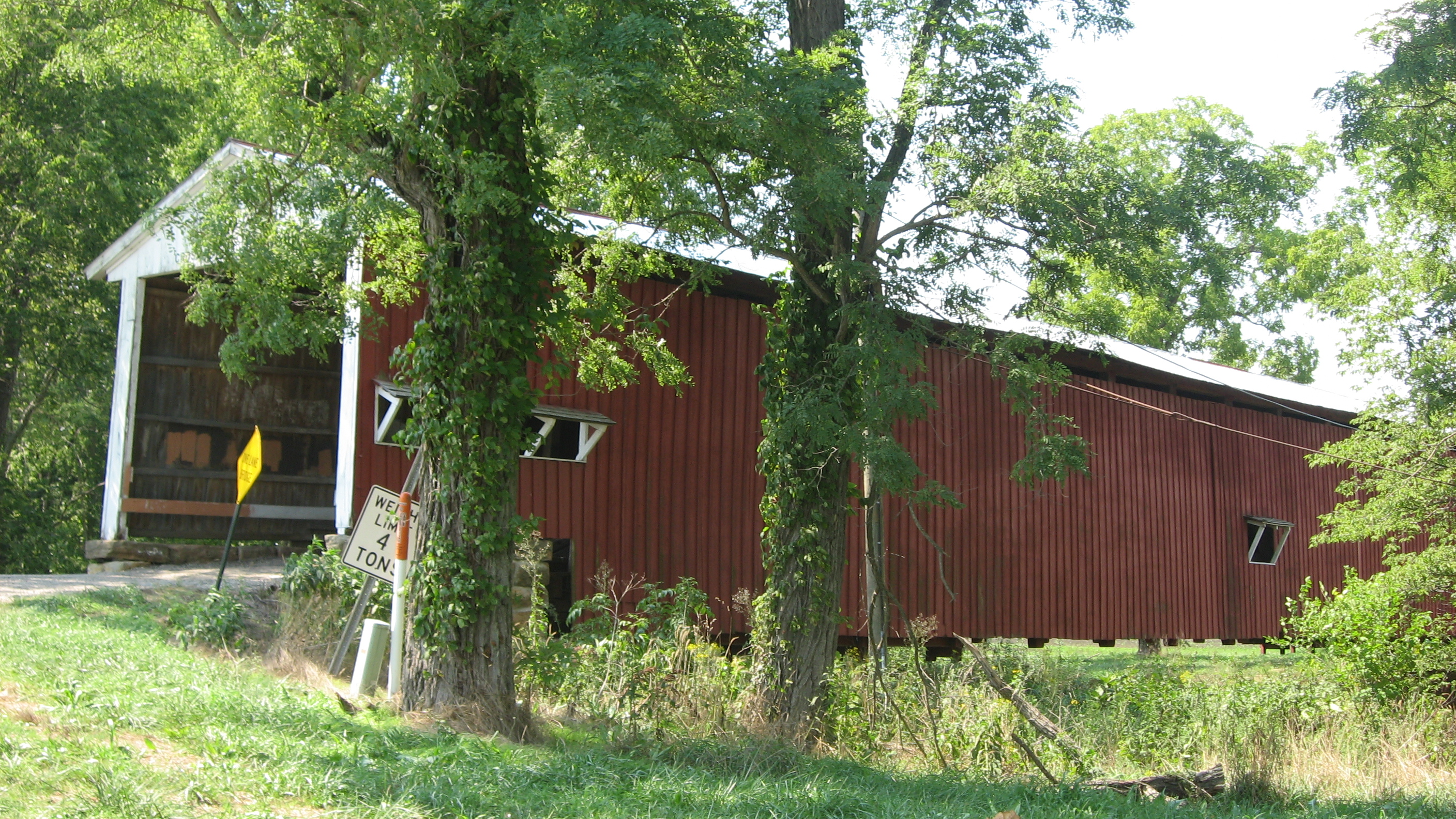 Southern portal and eastern side of the Crooks Covered Bridge, which carries Crooks Bridge Road over Little Raccoon Creek southeast of Rockville in Adams Township, Parke County, Indiana, United States. Built in 1856, it is listed on the National Register of Historic Places.